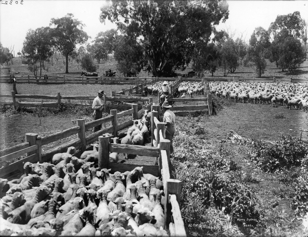 'Rural Life' Pictures from The Powerhouse Museum